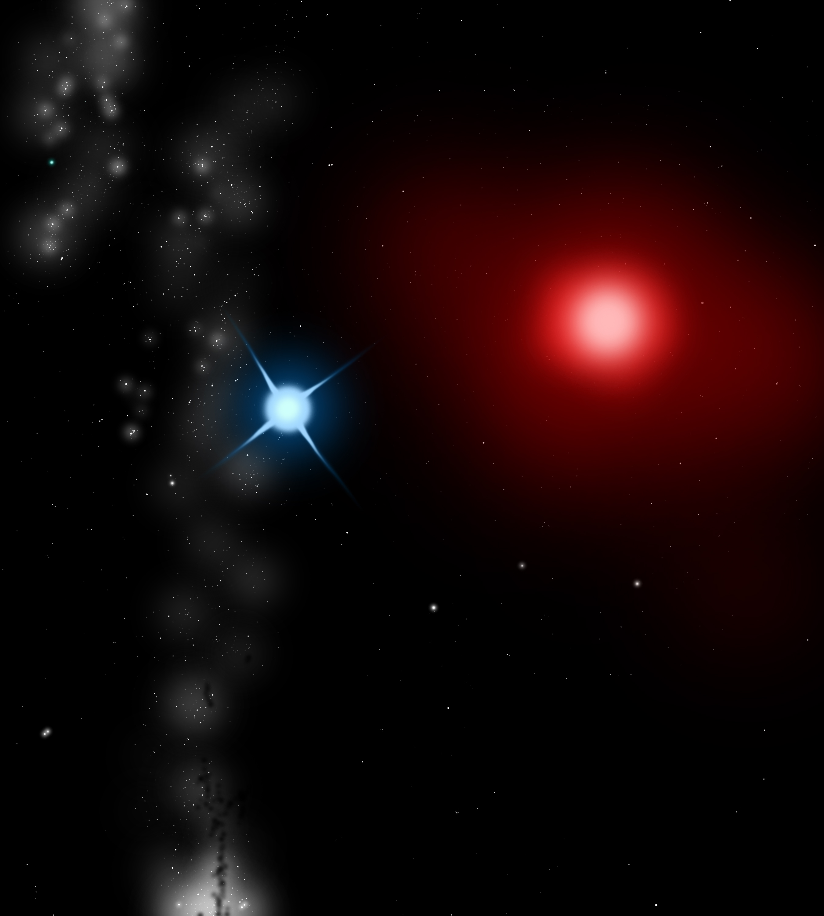 Antares A; an LC type variable red giant star, and Antares B, a class B2.5V blue main sequence star, make up a binary star system in the Scorpius constellation. Antares B is four solar radii, making it an average-sized star; however, Antares A is 800 solar radii, and were it placed in the center of our solar system, its corona would reach Jupiter. Note: this is NOT a size-comparison image — Antares B is far smaller than A.